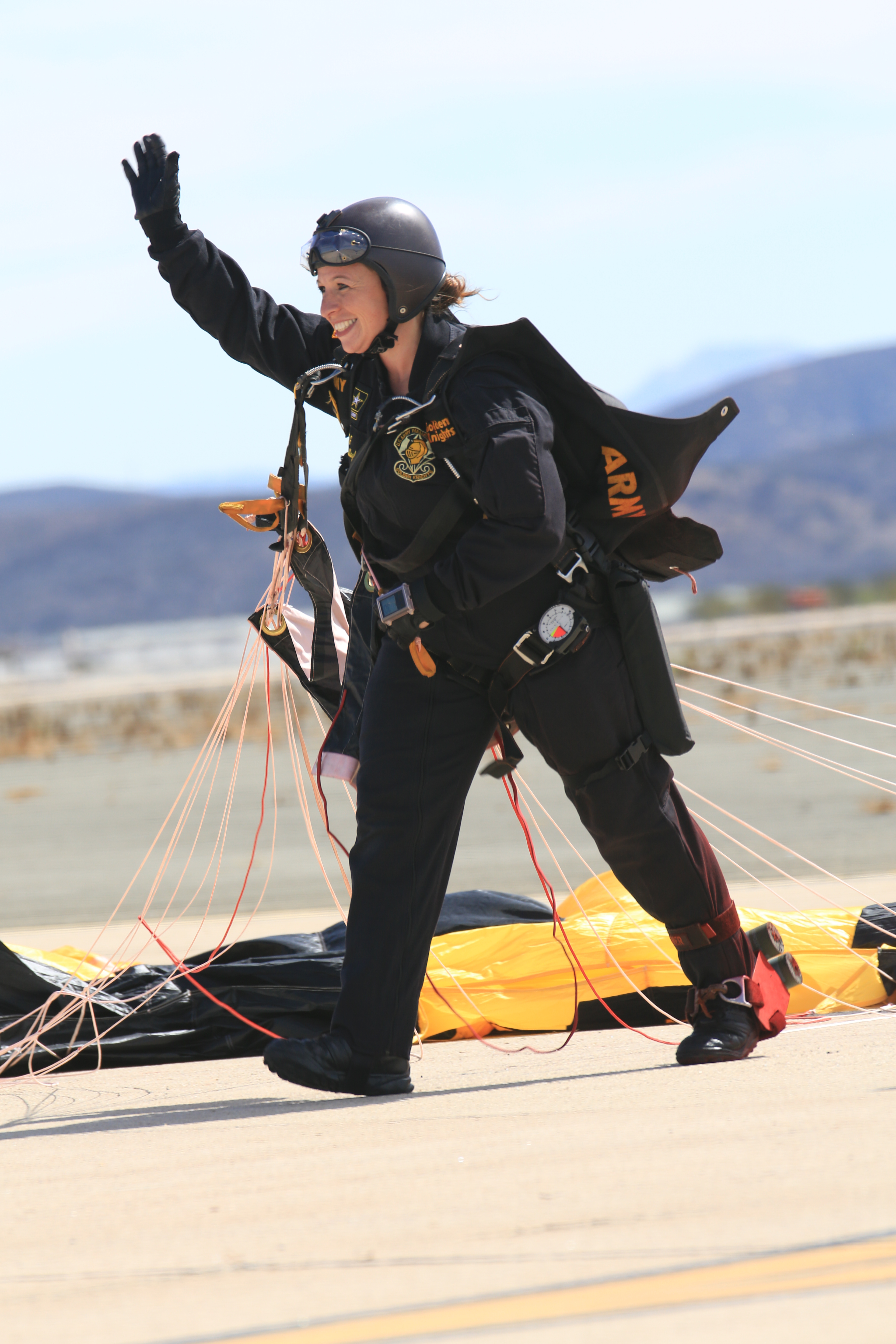 Staff Sgt. SherriJo Gallagher, with the U.S. Army Parachute Team "The Golden Knights", displays aerial skills during the Marine Corps Community Services sponsored 2014 Air Show aboard Marine Corps Air Station Miramar, San Diego, Calif., Oct. 4, 2014. The air show showcases civilian performances and the aerial prowess of the armed forces but also, their appreciation of the civilian community’s support and dedication to the troops.